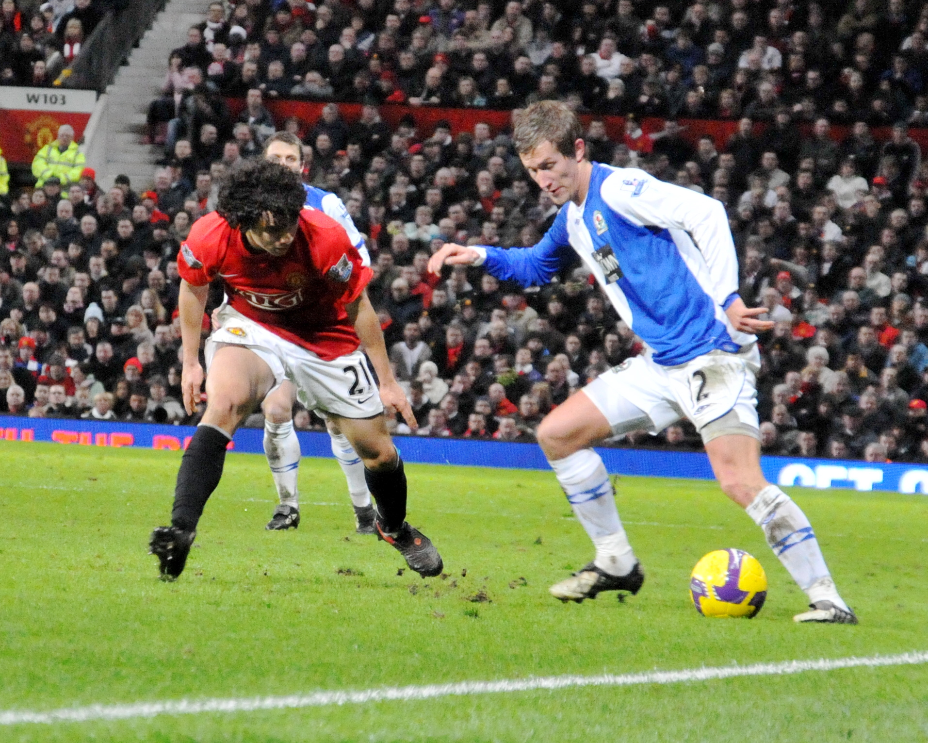 Rafael da Silva of Manchester United, Morten Gamst Pederson of Blackburn Rovers